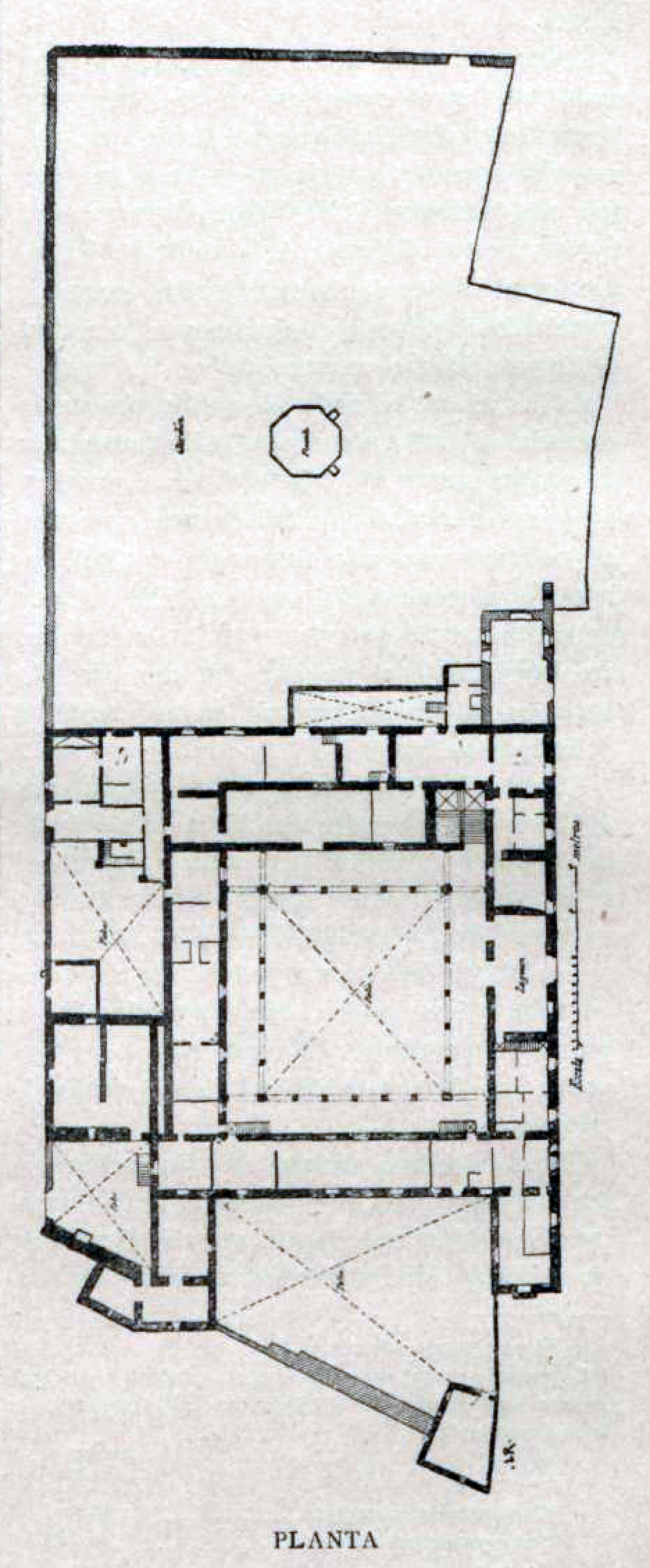 Planta del palacio de Altamira, en Torrijos.